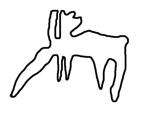 Outline of the Russian Geoglyph,near Lake Zjuratkul in the Ural Mountains